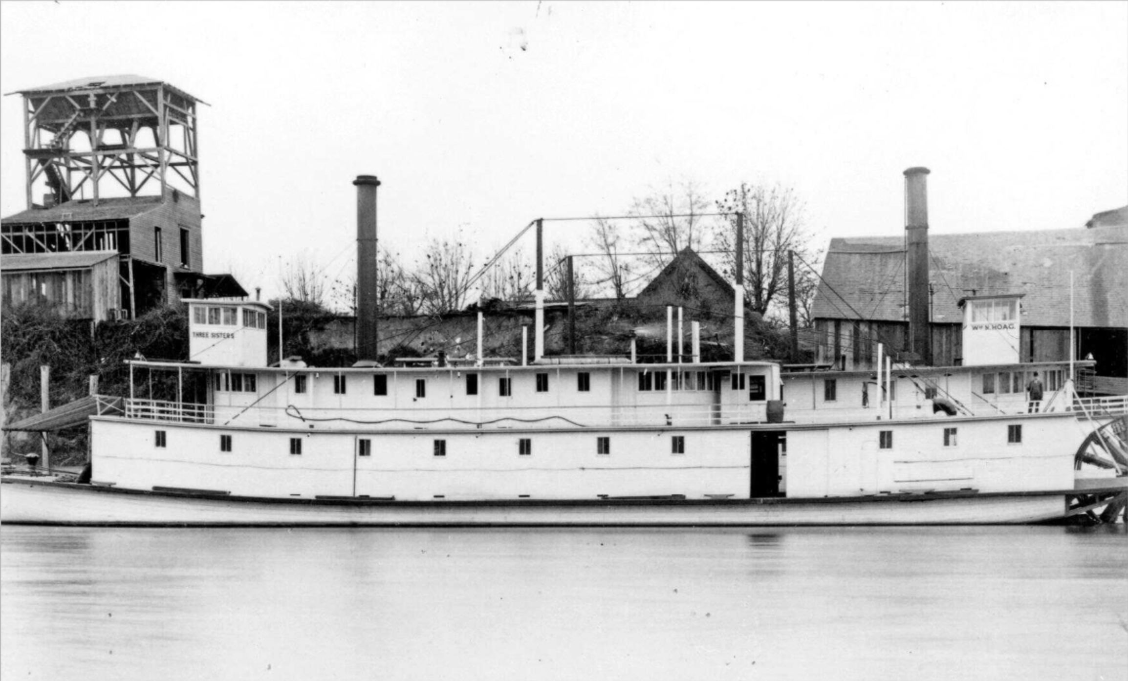 Corvallis wharves on the Willamette River, ca 1892. Cannot be later than May 31, 1996 however, as steamer Three Sisters was dismantled by that date.